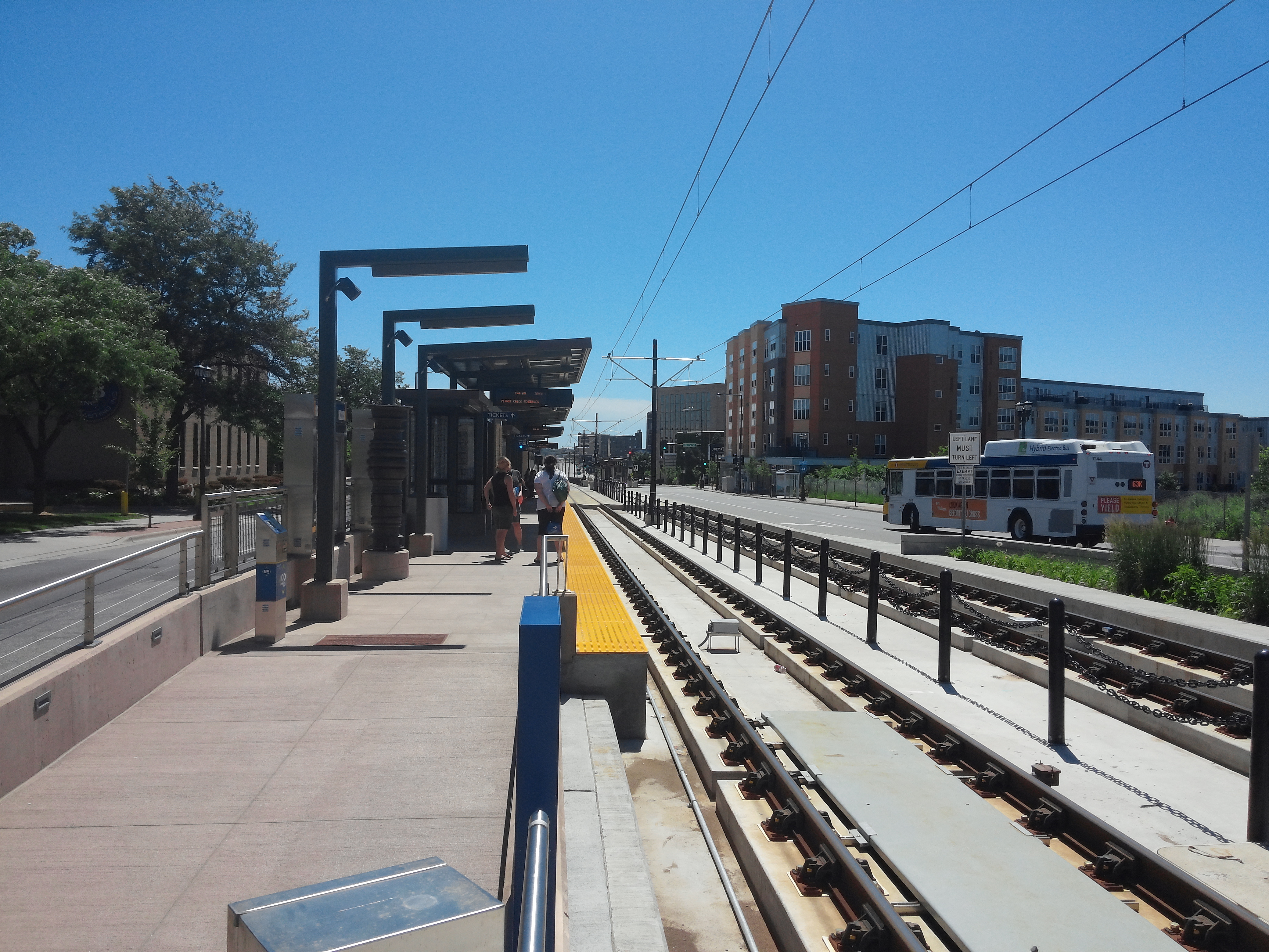 Westgate station, METRO Green Line, Minneapolis, Minnesota.